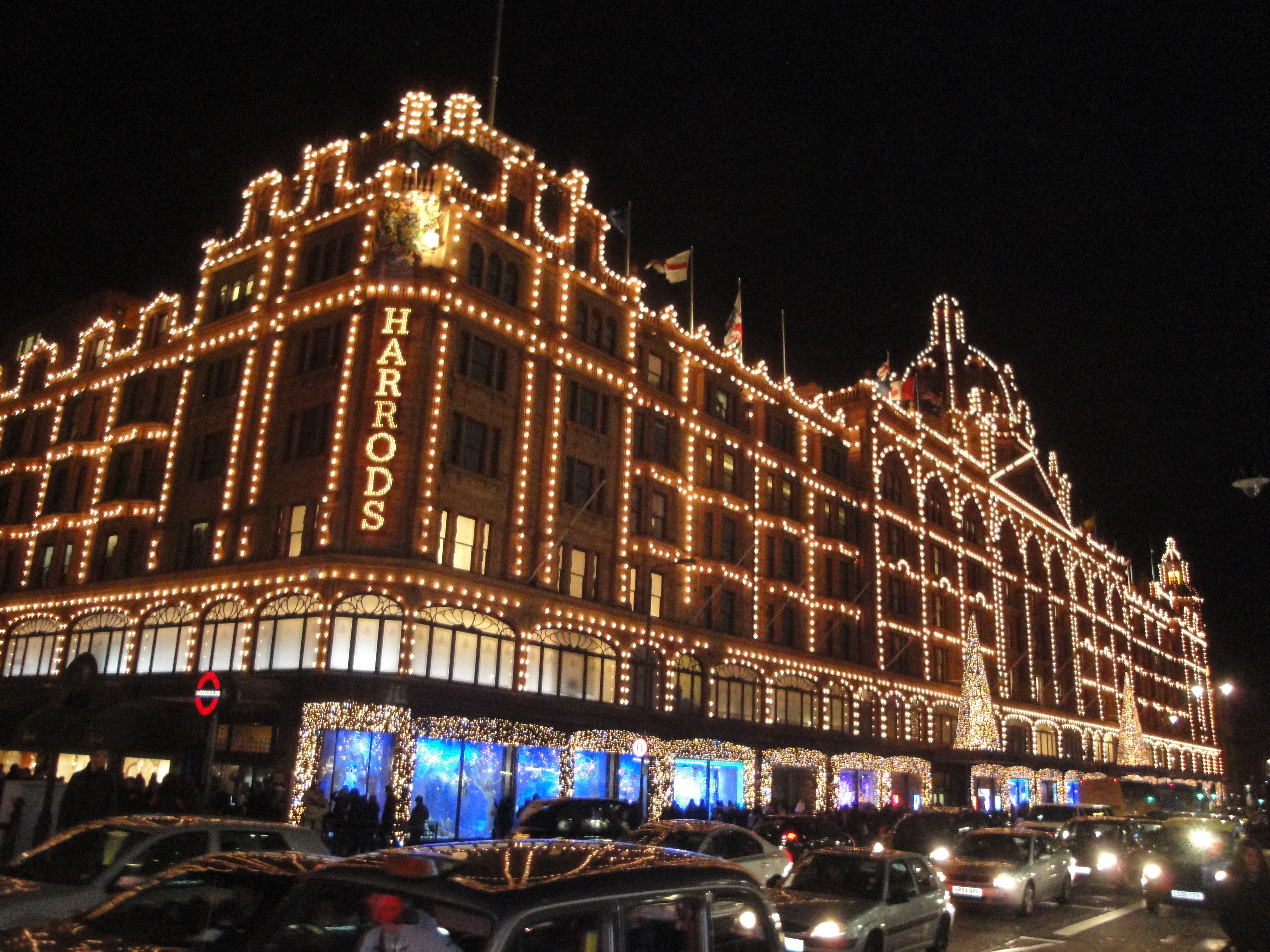 Harrods department store, Brompton Road, Kensington and Chelsea (borough), London, seen lit up at night in November 2011.